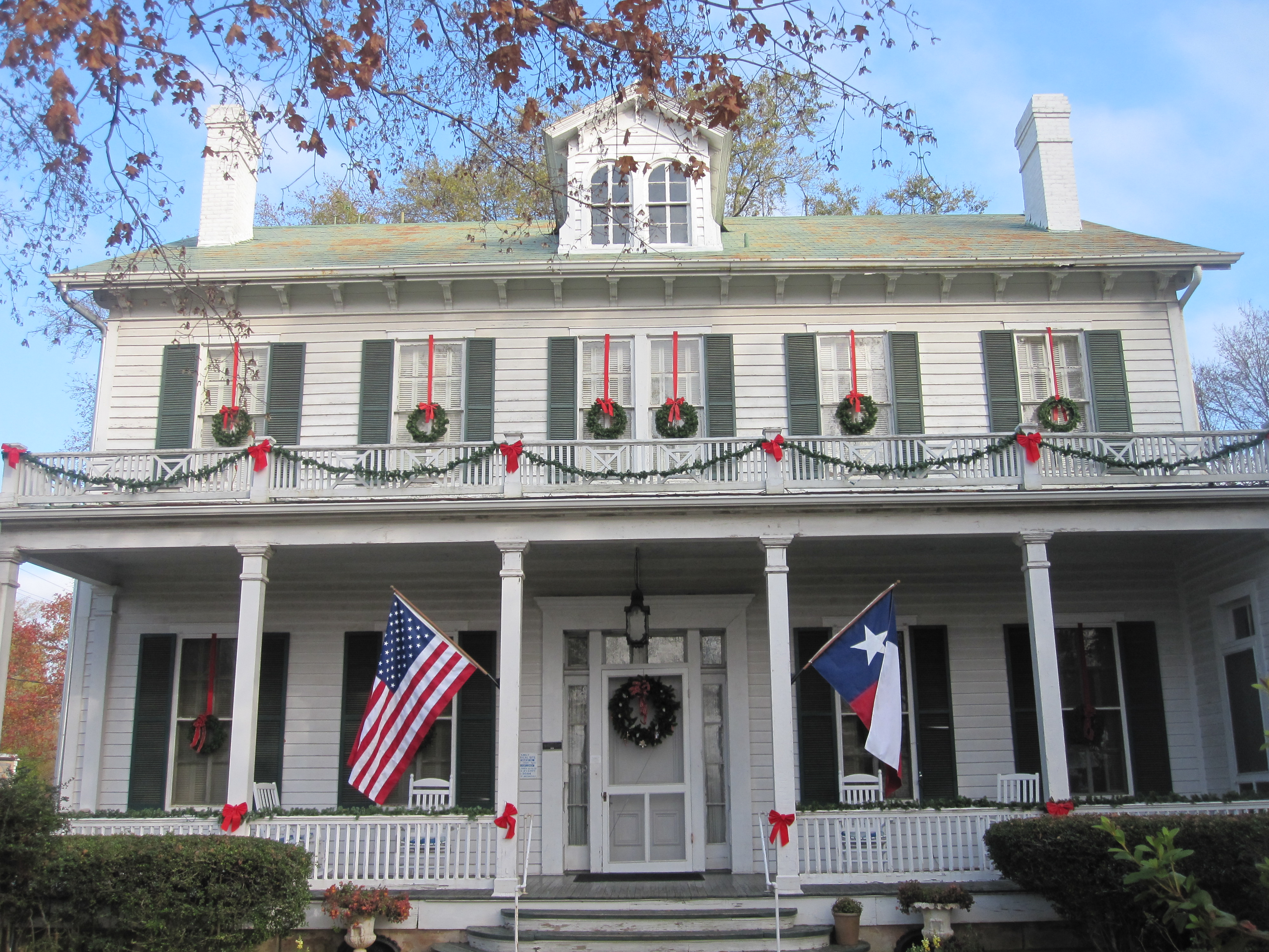 Starr Family Home Historic Site in Marshall, TX, at Christmastime